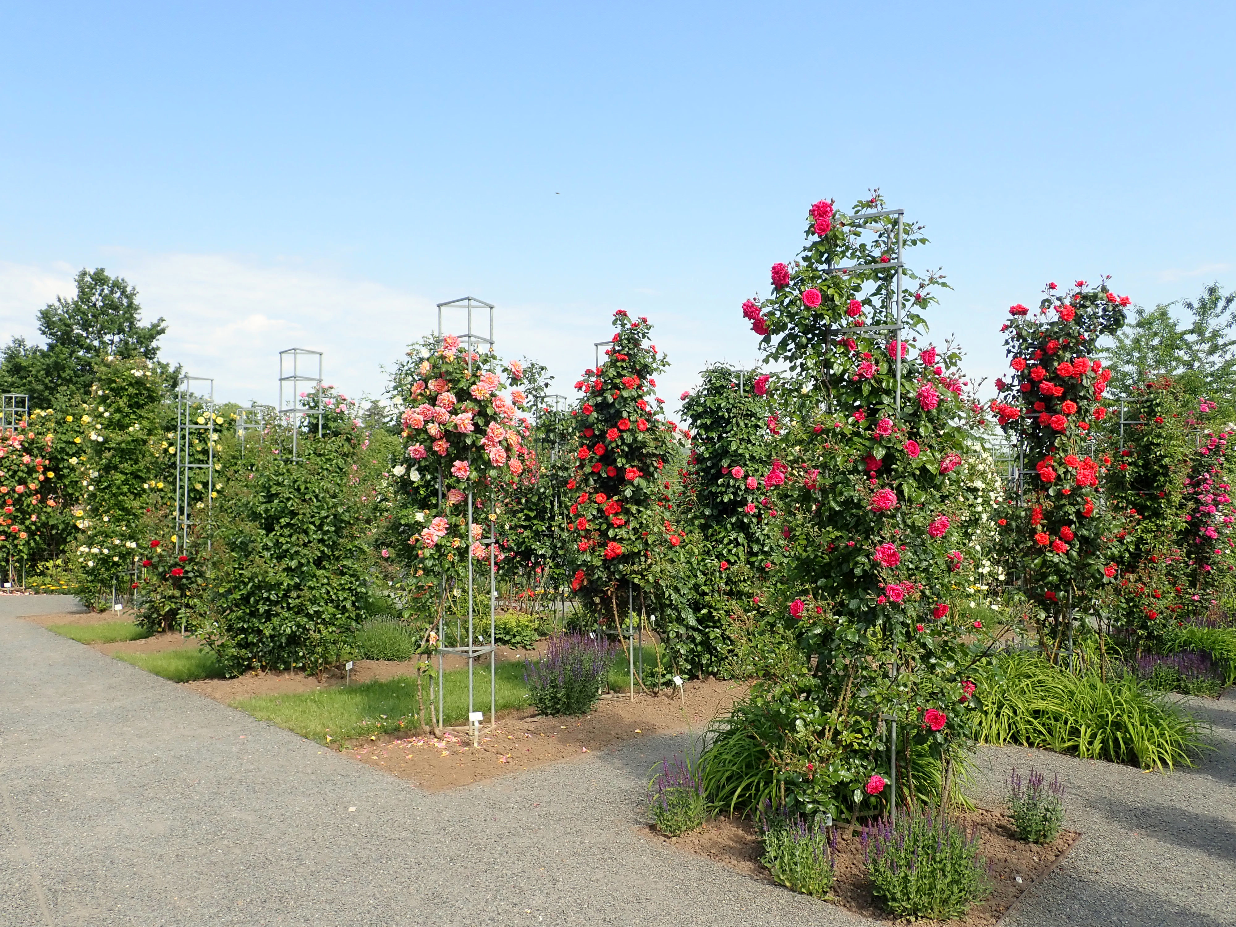 Europa-Rosarium Sangerhausen.